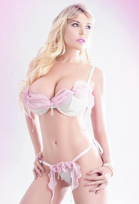 Alyssa Nicole Pallett, glamour photo, United Kingdom.